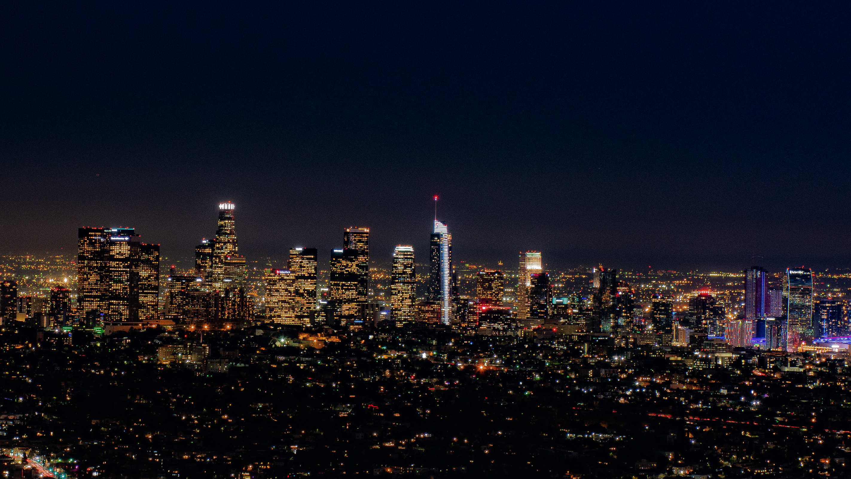 downtown Los Angeles at night as seen from Griffith Park Observatory